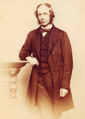 Portrait of Henry Sumner Maine (1822-1888)